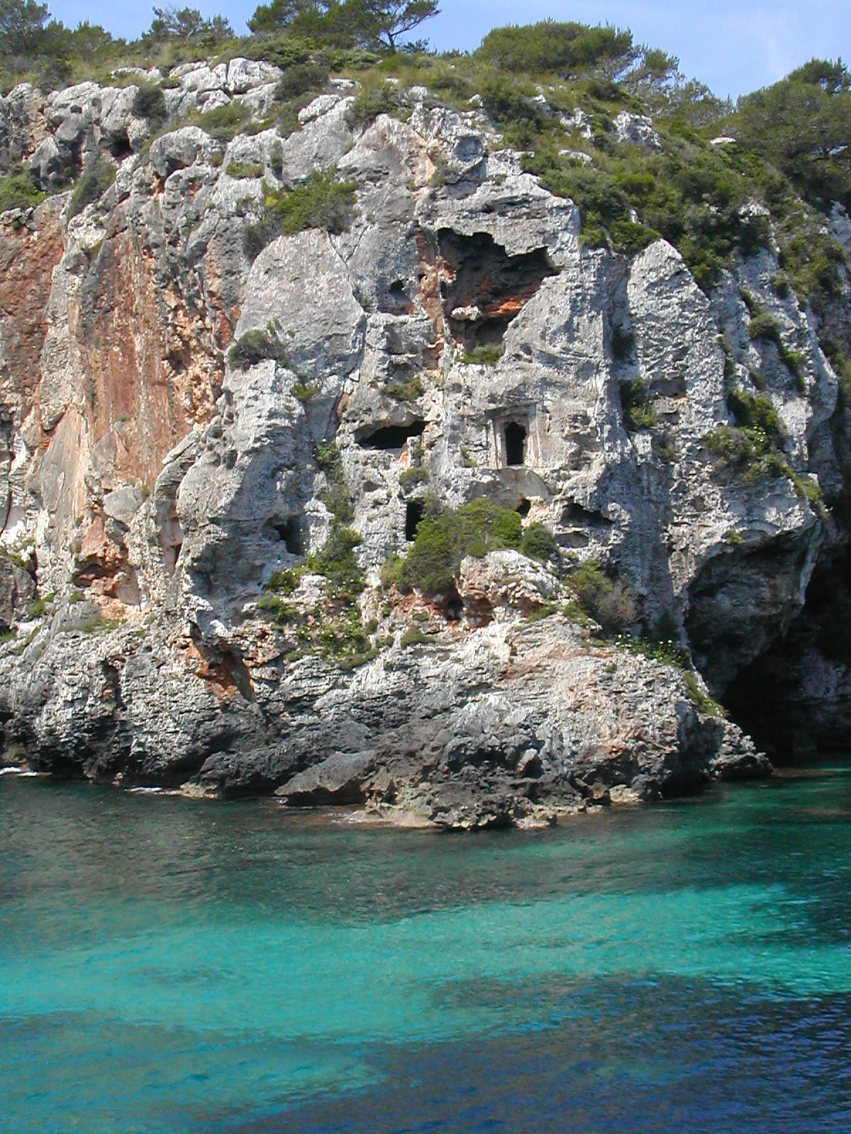 A photo of Cales Coves in 2004. Located along the southern coast on the island of Menorca. Note the hand-hewn entrances to the caves used as burial crypts.